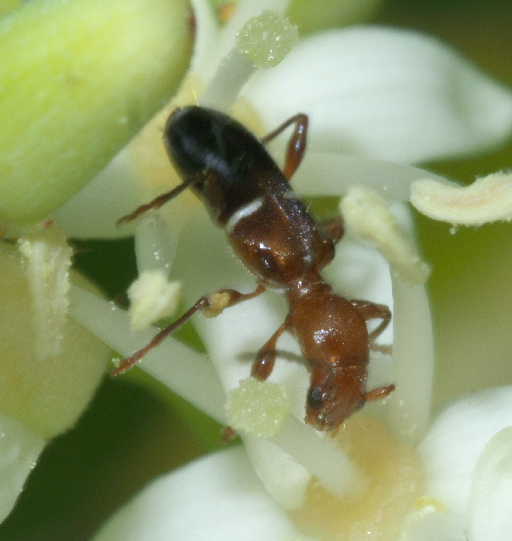 Euderces reichei, Family: Long-horned Beetles, ID Confidence: 88